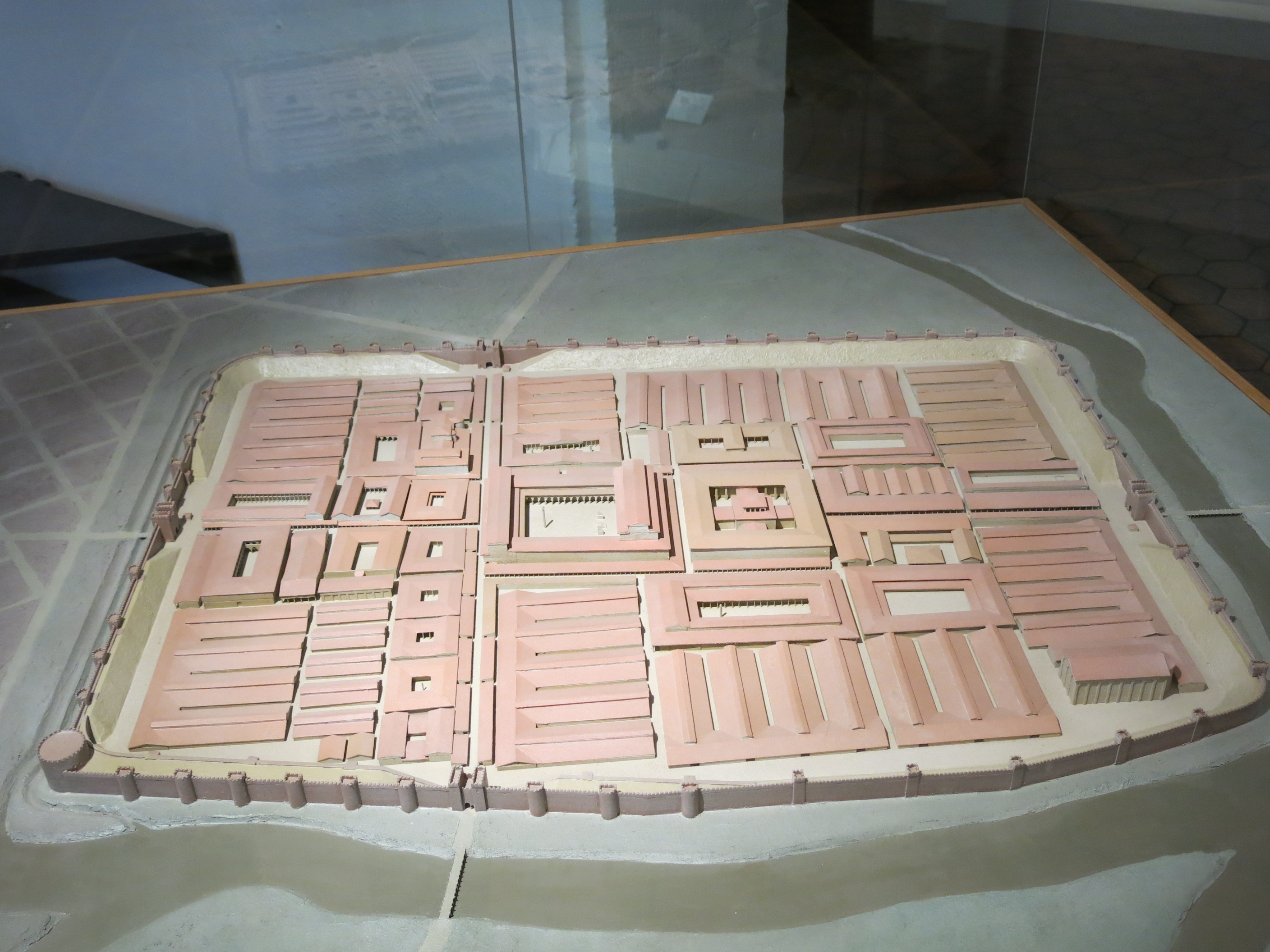 Model of the Roman town of Argentoratum at the 4th centure after J.-C. in the archeological museum of Strasbourg (Bas-Rhin, France). Length 530m * width 375m. The North-West is at the top of the photo and the South-East at the bottom with the Ill river. Some notes show the place of some streets to day.